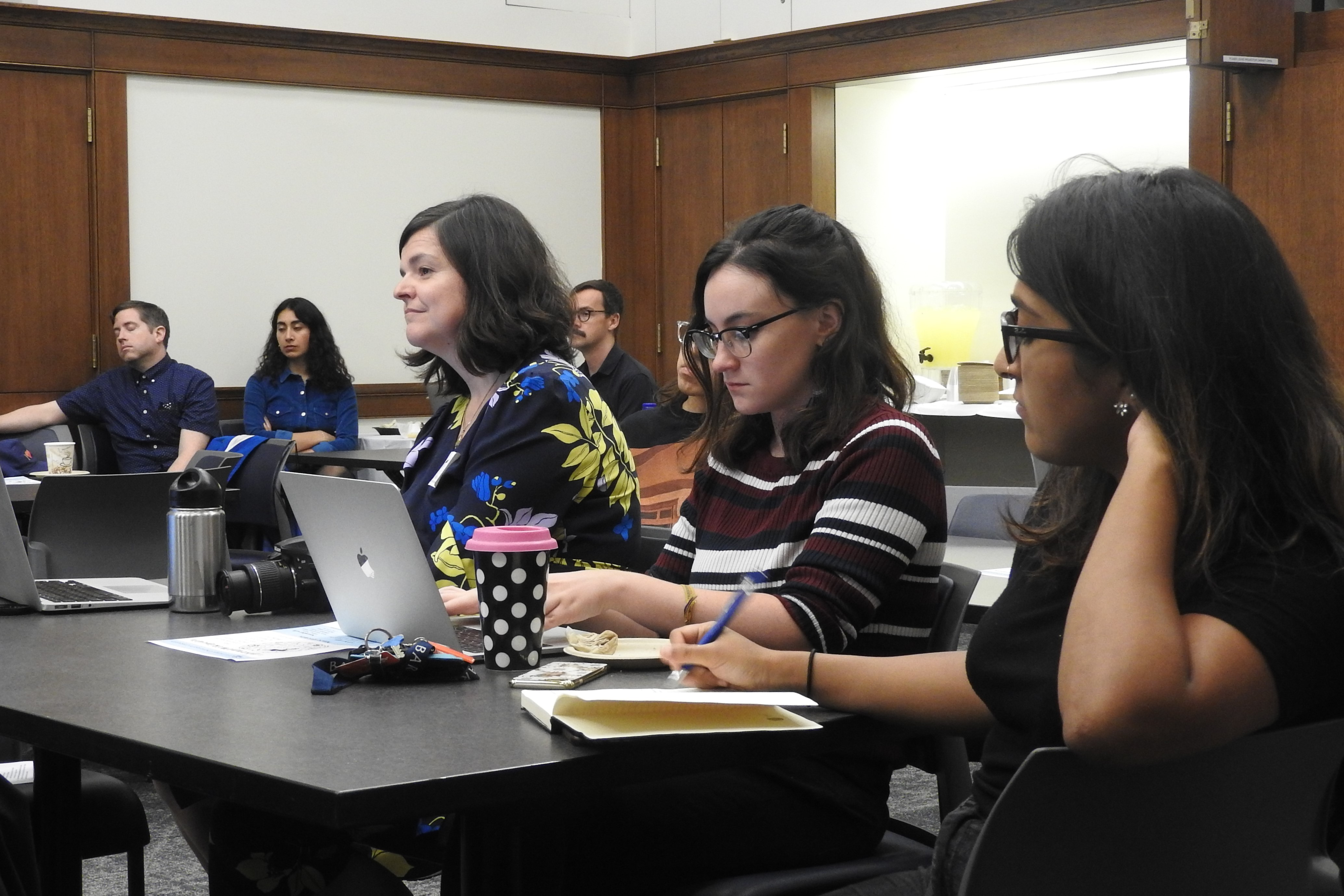 Looking southeast at listeners to panel discussion